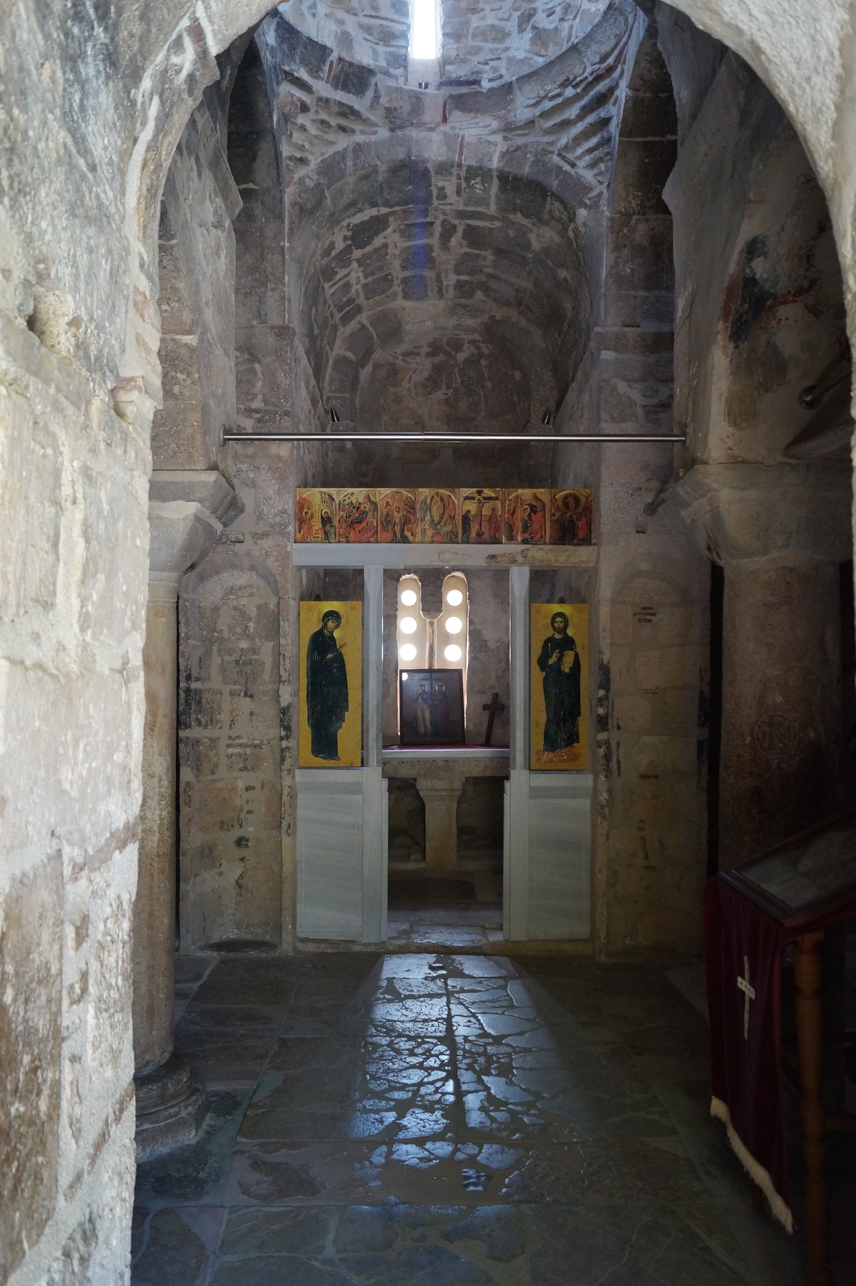 Lygourio, Argolida, Greece: Interior of the church of Agios Ioannis Eleimon.